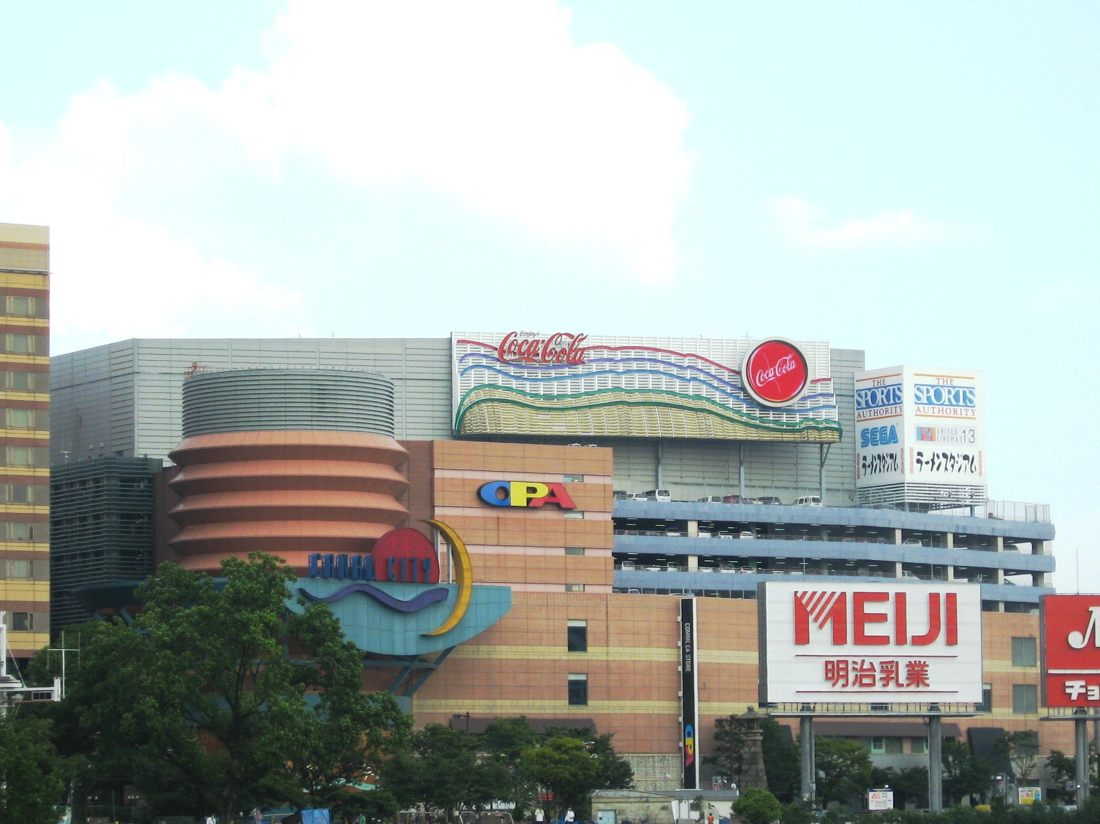 CanalCity, Fukuoka, viewing from Haruyoshi Bridge. Taken with a Canon PowerShot A720 IS.